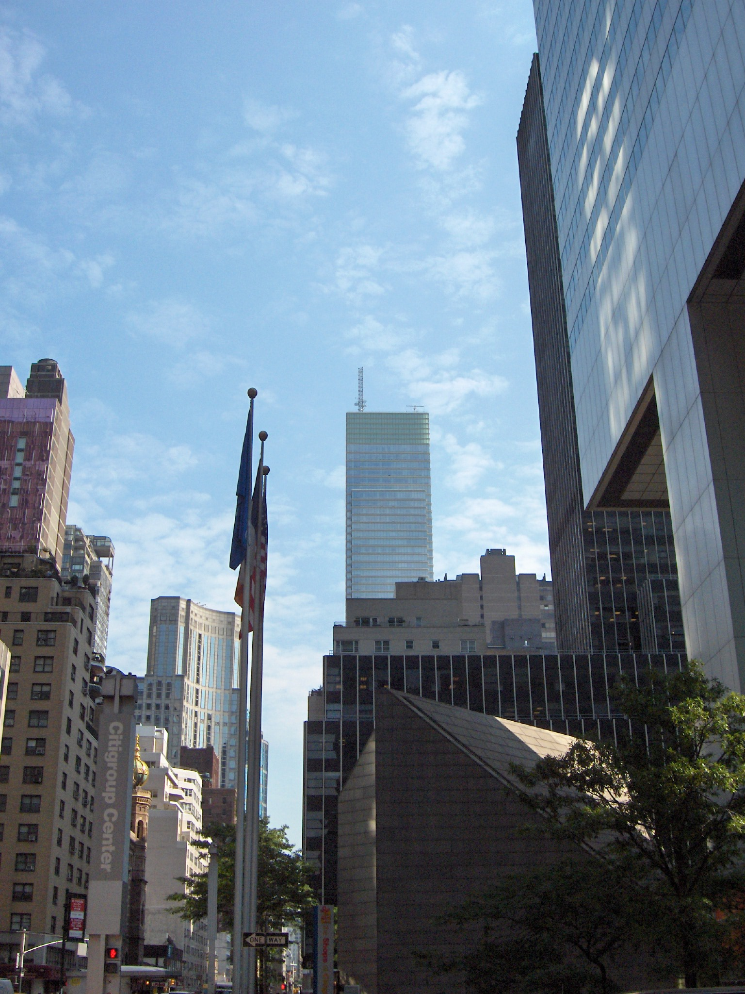 Bloomberg Tower. Photo prise lors d'un voyage à New York, aout 2006.